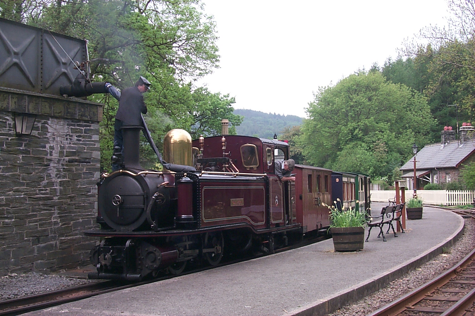 Ffestiniog railway locomotive Taliesin at Tan-y-Bwlch Author: Dan Crow